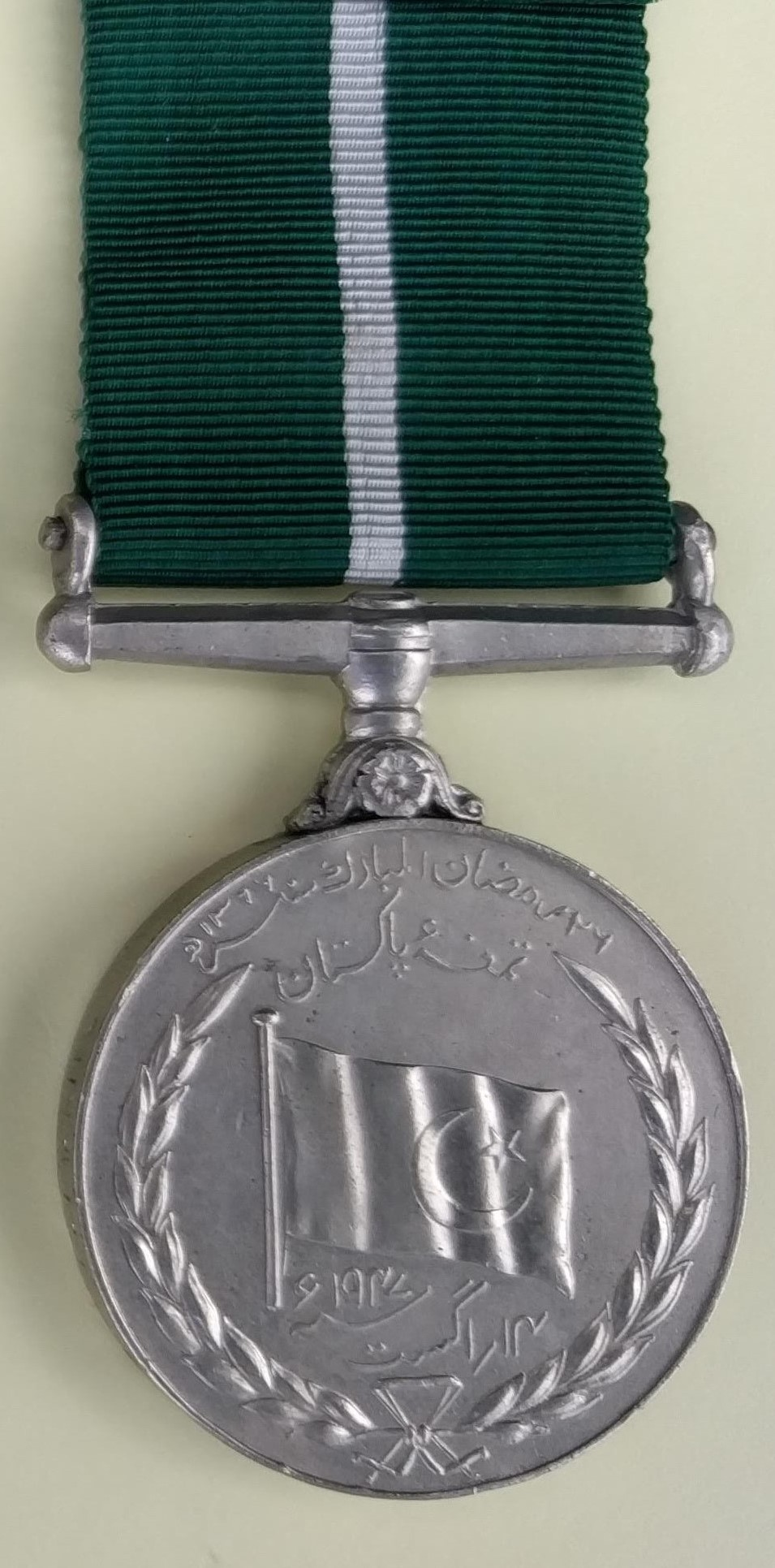 Pakistani medal awarded to commemorate independence in 1947. Toː 3528728 Sepoy Ghulam Rasul 13th Frontier Force Rifles